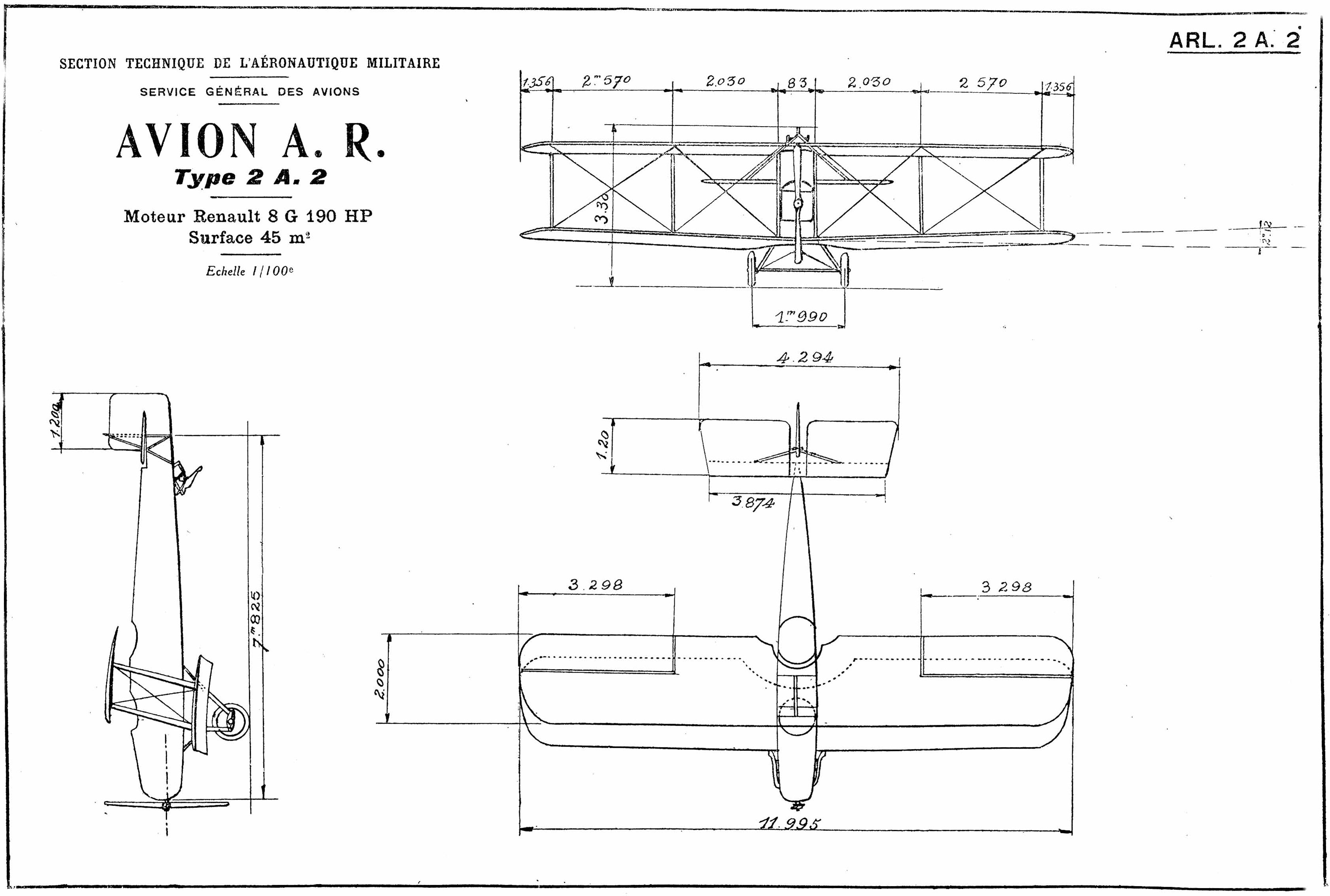 Dorand AR 2 dwg